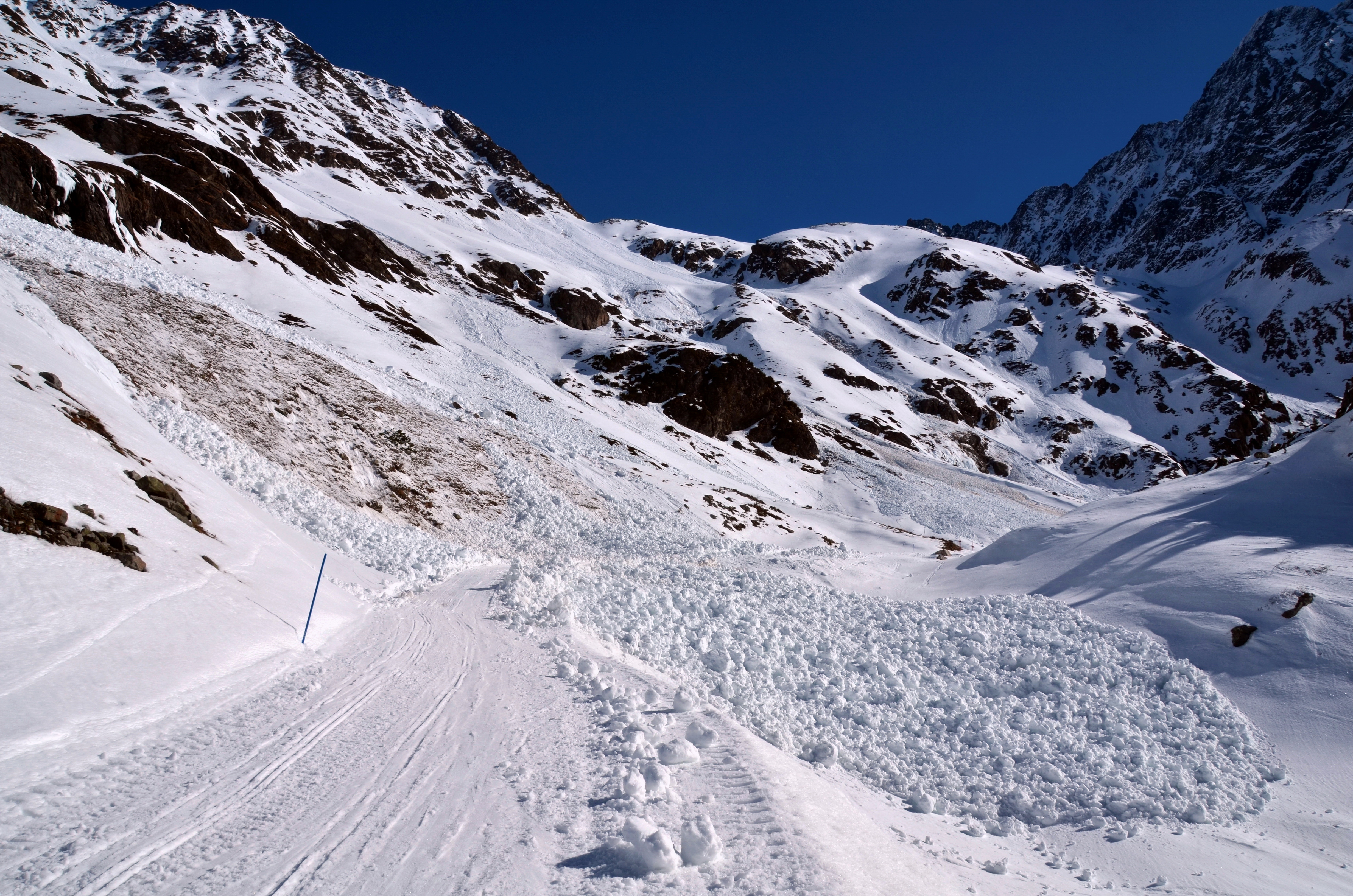 The danger of avalanches should never be underestimated. Hundreds of tons snow are coming down with enormous destructive forces!